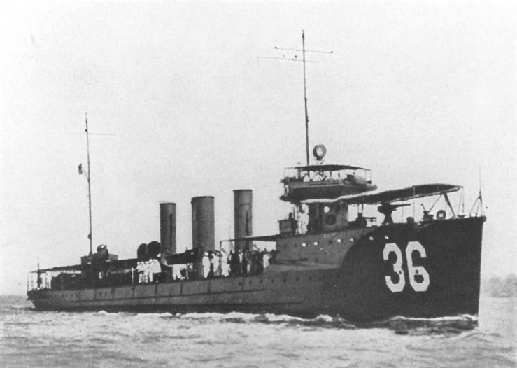 Photo #: NH 82571. USS Patterson (Destroyer # 36) underway, circa 1916. Halftone reproduction, copied from the book "Our Navy in the War", by Lawrence Perry, 1922. U.S. Naval Historical Center Photograph.